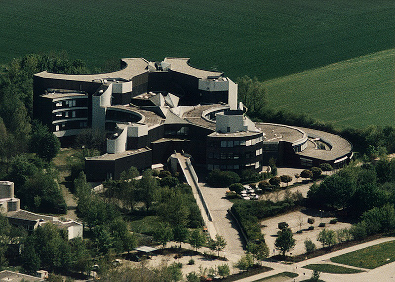 This image shows an aerial view of the modernistic building of the ESO Headquarters in the town of Garching, some 15 kilometres north of Munich, the capital of Bavaria, Germany. The building, which was donated to ESO by the Government of the (then Federal) Republic of Germany was constructed in the late 1970's at a time when ESO's various divisions were still dispersed at several sites in Europe. The move into the Organisation's new European home took place in the summer of 1980.